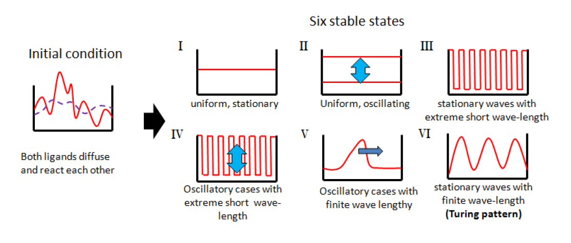 Solutions for Turing's reaction-diffusion equation, which converges to one of the six states pictured.